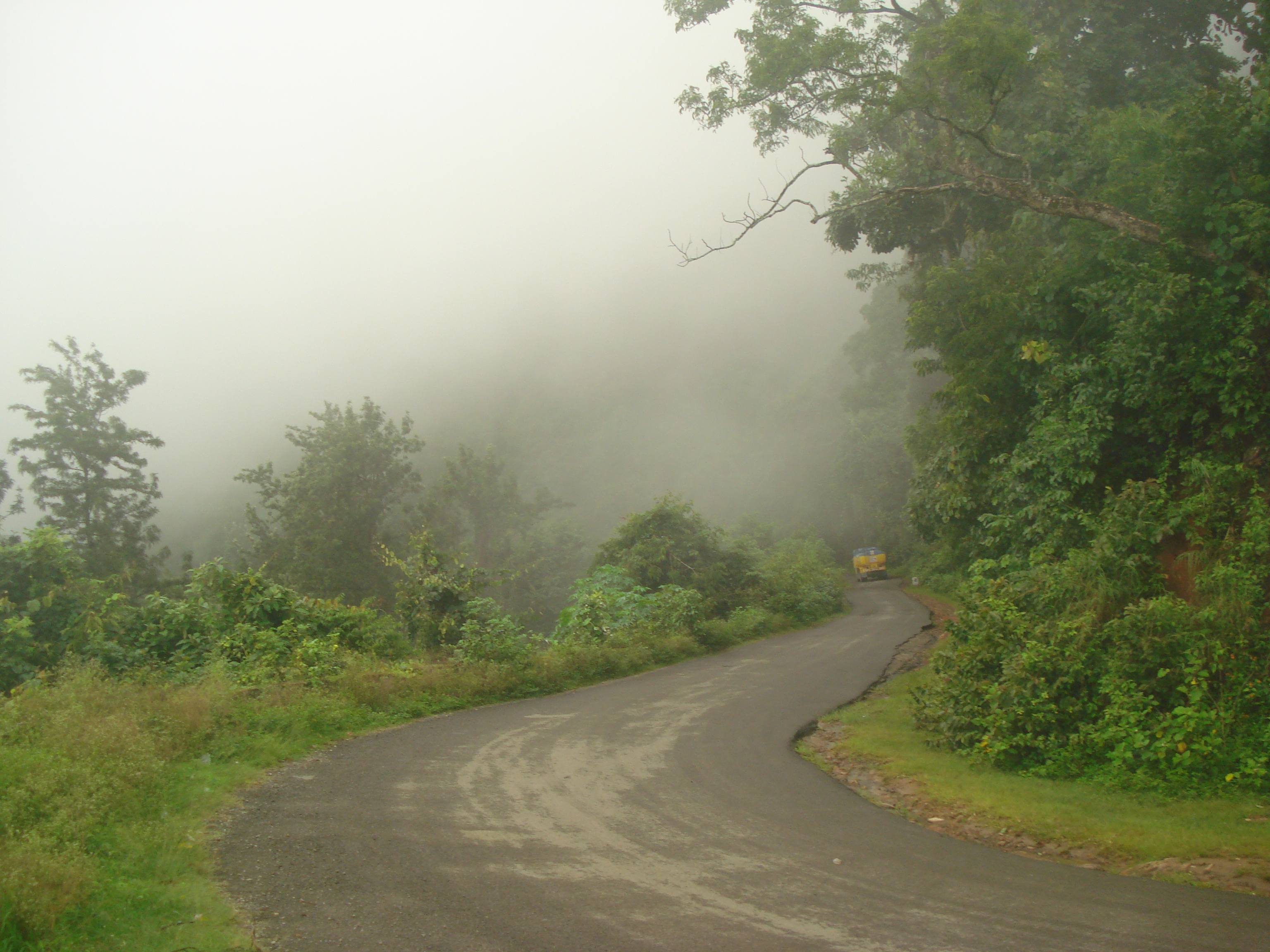 Ghat road to Paderu